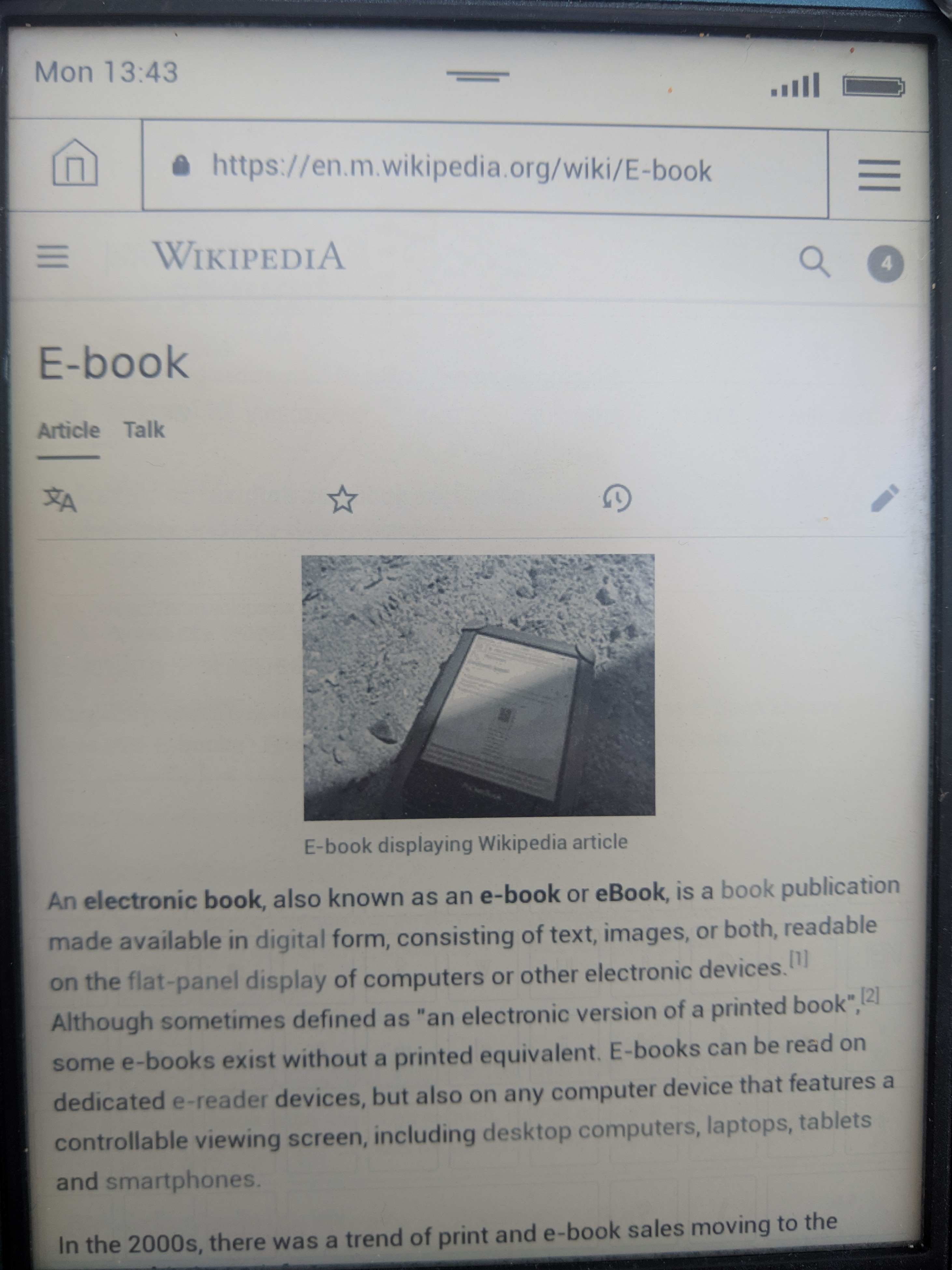 yeah